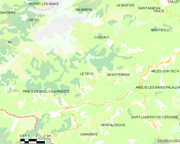 Map of French municipality